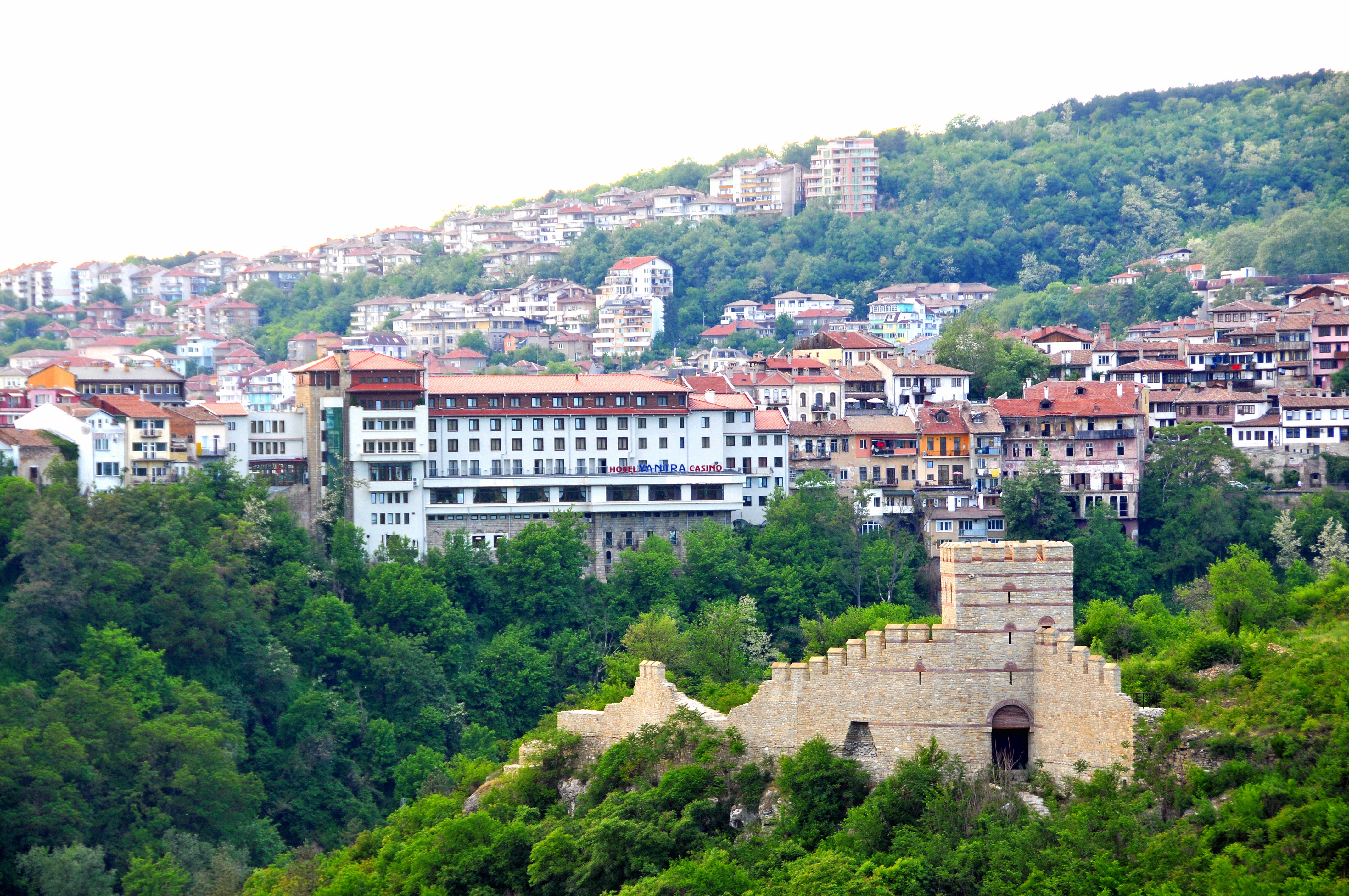 PLEASE, no multi invitations, glitters or self promotion in your comments, THEY WILL BE DELETED. My photos are FREE for anyone to use, just give me credit and it would be nice if you let me know, thanks - NONE OF MY PICTURES ARE HDR. The fortification called Trapezitsa on the other side of the river. The hotel I was staying at is the long white building, centre left.